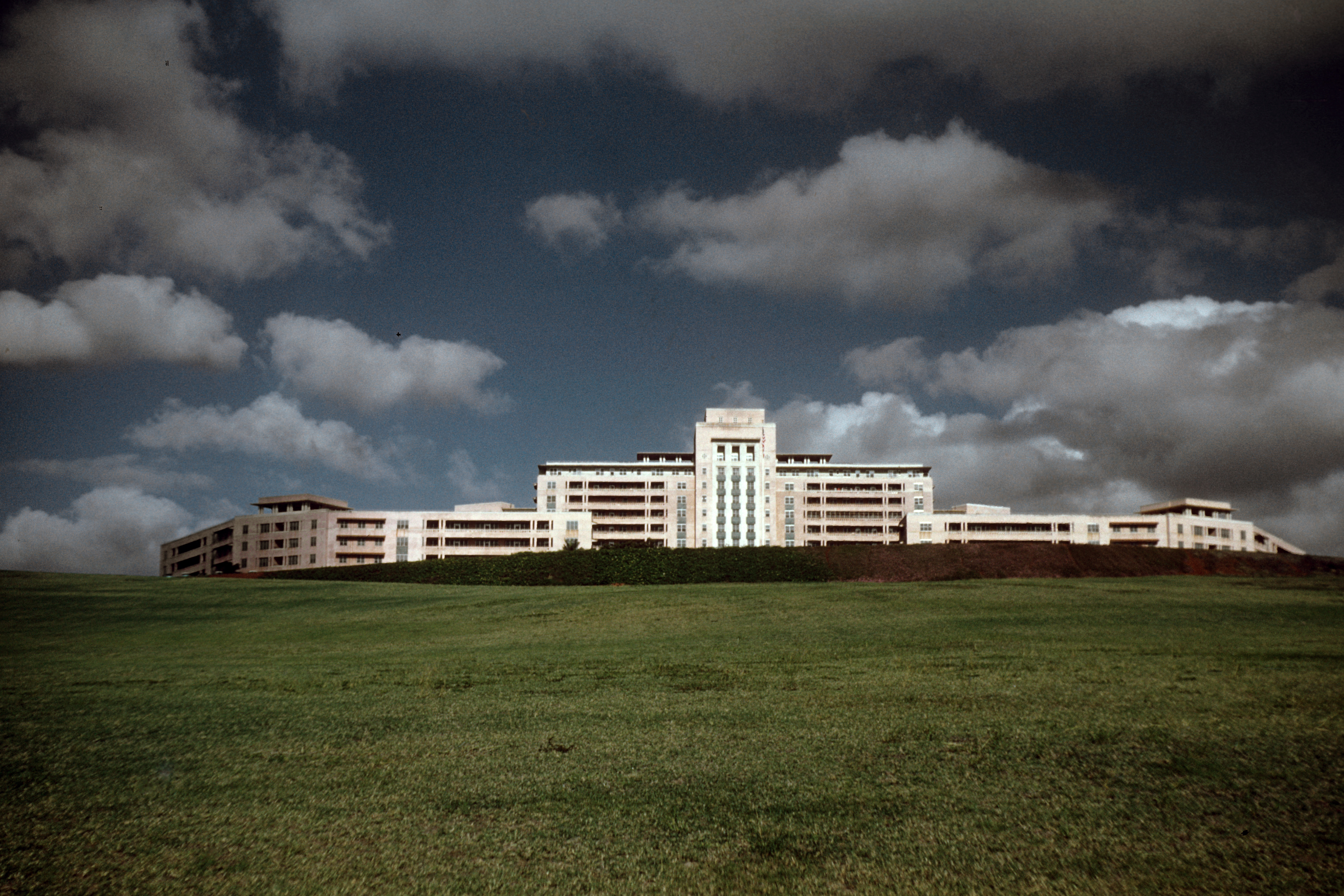 color slide photo of Tripler Army Medical Center taken in 1960 by amateur photographer